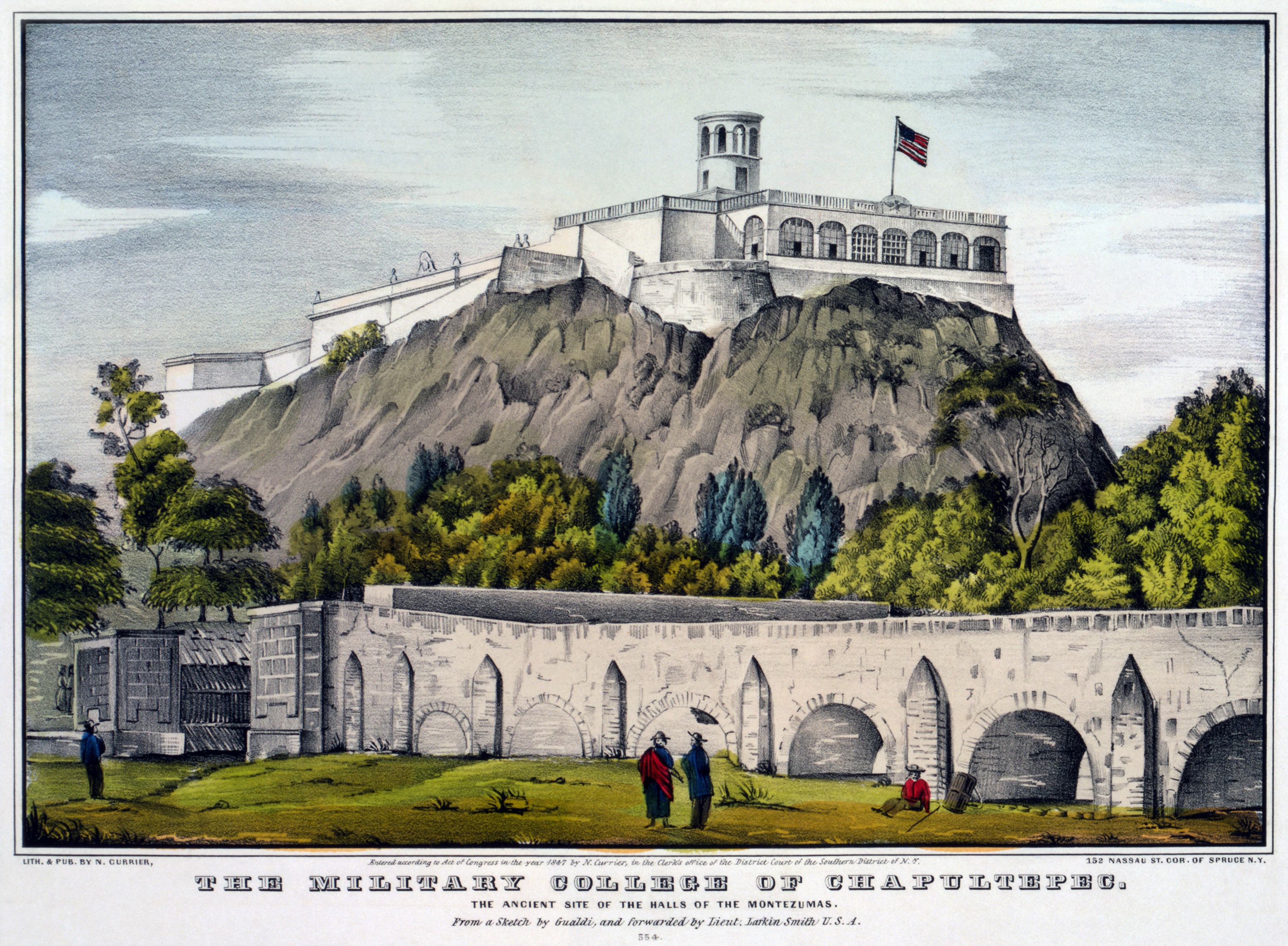 Military College of Chapultepec, hand tinted lithograph published by Nathaniel Currier, c. 1847 following the Battle of Chapultepec at Chapultepec Castle in Mexico City during the Mexican-American War. A United States flag indicates the outcome of the battle. The work depicts the Military College of Chapultepec, the ancient site of the halls of the Montezumas. lith. & pub. by N. Currier, from a sketch by Gualdi, and forwarded by Lieut. Larkin Smith, U.S.A. 1 print : lithograph, hand-colored.